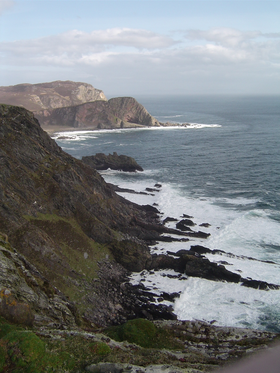 Photograph taken by Chris Bazley-Rose, made available freely in accordance with Wikipedia guidelines